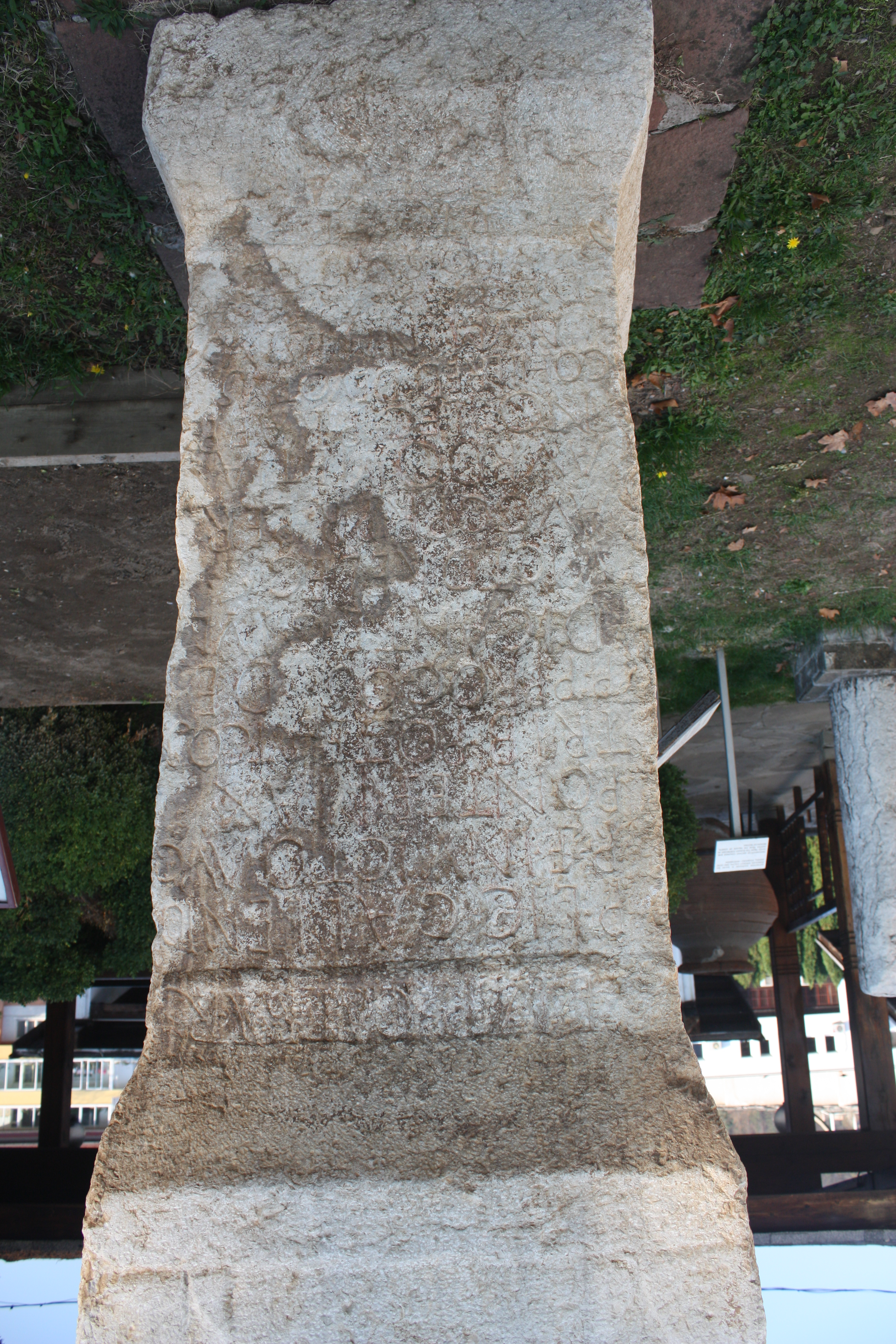 Roman inscription from Troyan, Bulgaria, marbled limestone, raised in honor of to Emperor Publivs Licinivs Gallienivs, 253-268 AD